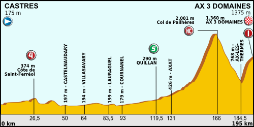 Tour de France 2013 - Profile Stage No. 8